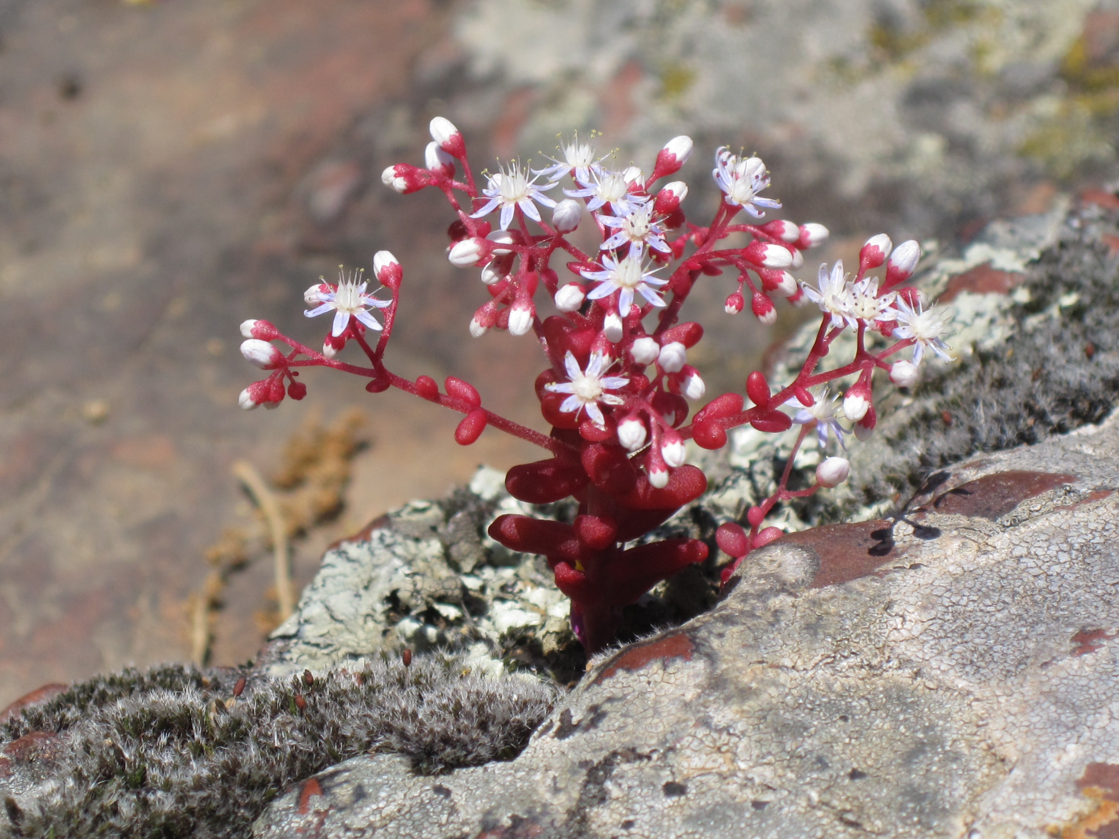 Sedum caeruleum, Corsica, France